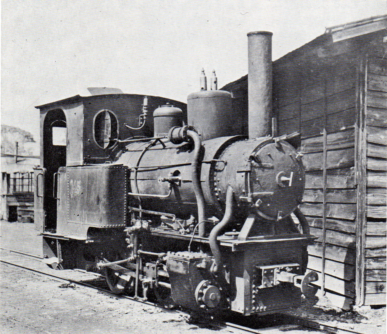 Japanese Governmental Railway type Ke145 steam locomotive, taken at Kanoya station, Kanoya, Kagoshima, Japan. The locomotive was Osumi railway No.1 steam locomotive until the railway was nationalized in 1935